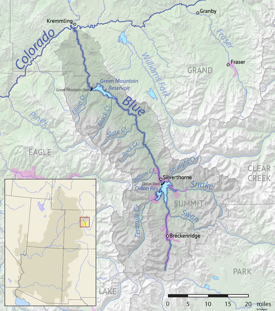 Map of the Blue River drainage basin in Colorado, USA. Made using USGS data.